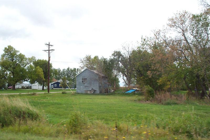 which directs to